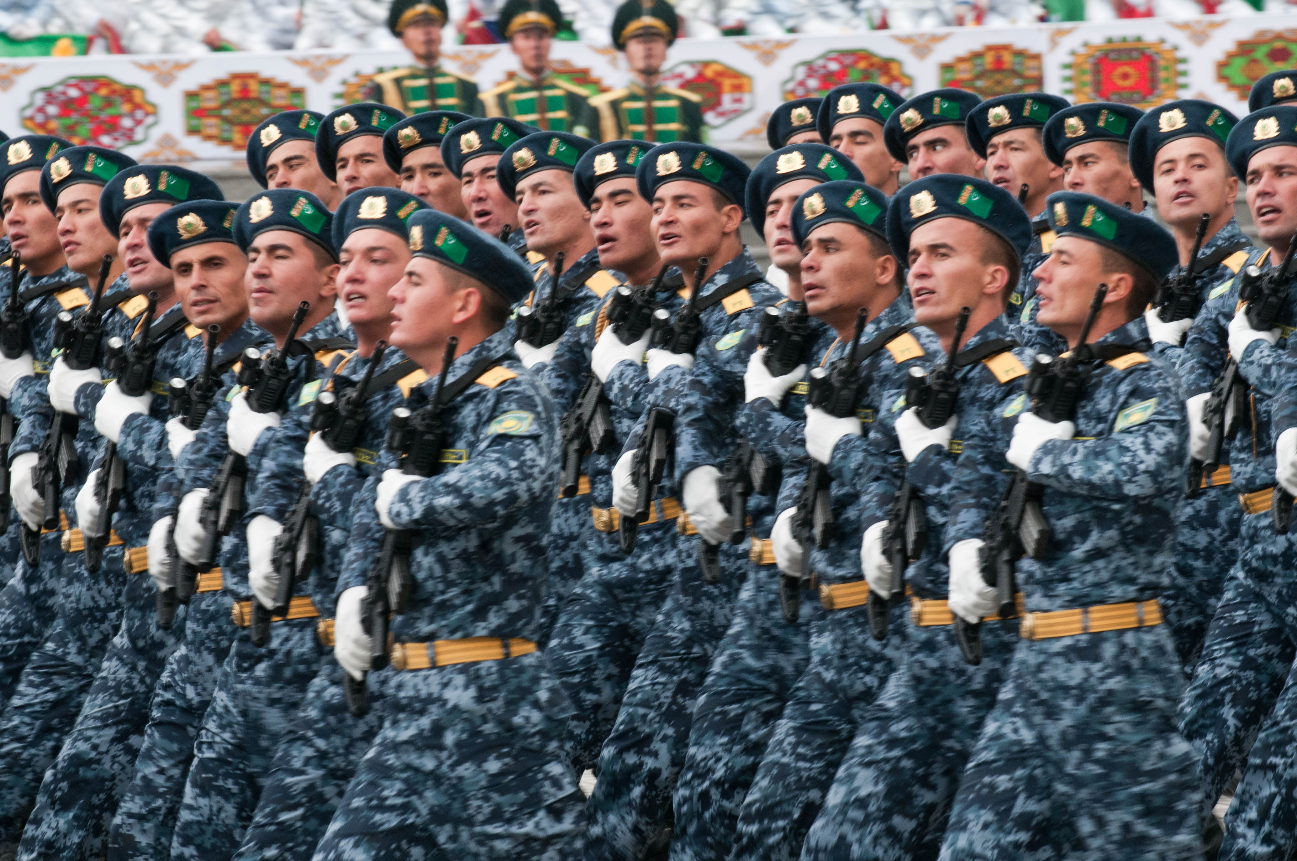 Celebrating the 20th year of independence in Turkmenistan